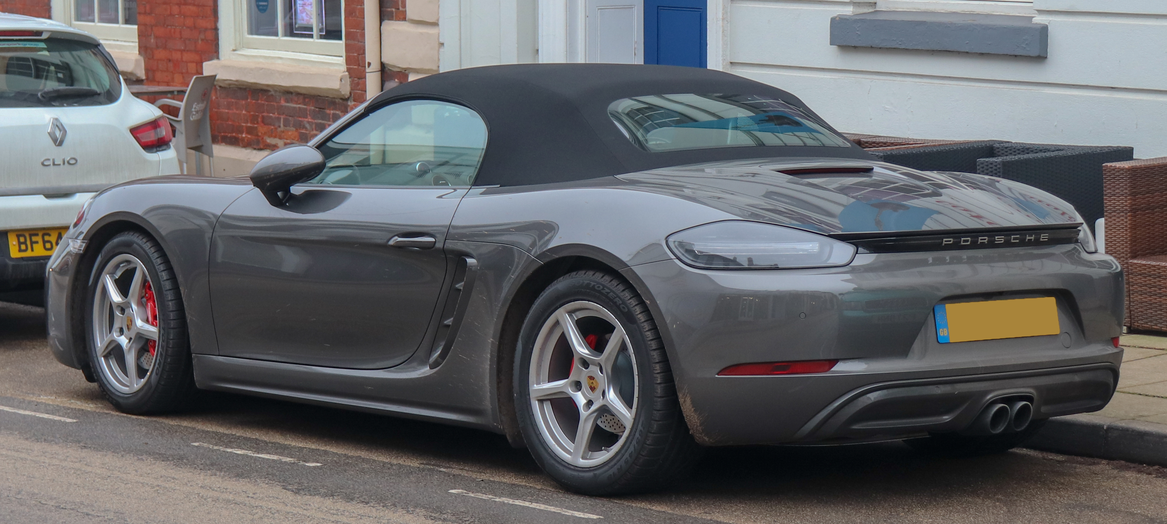 2018 Porsche 718 Boxster S S-A 2.5 Rear Taken in Warwick